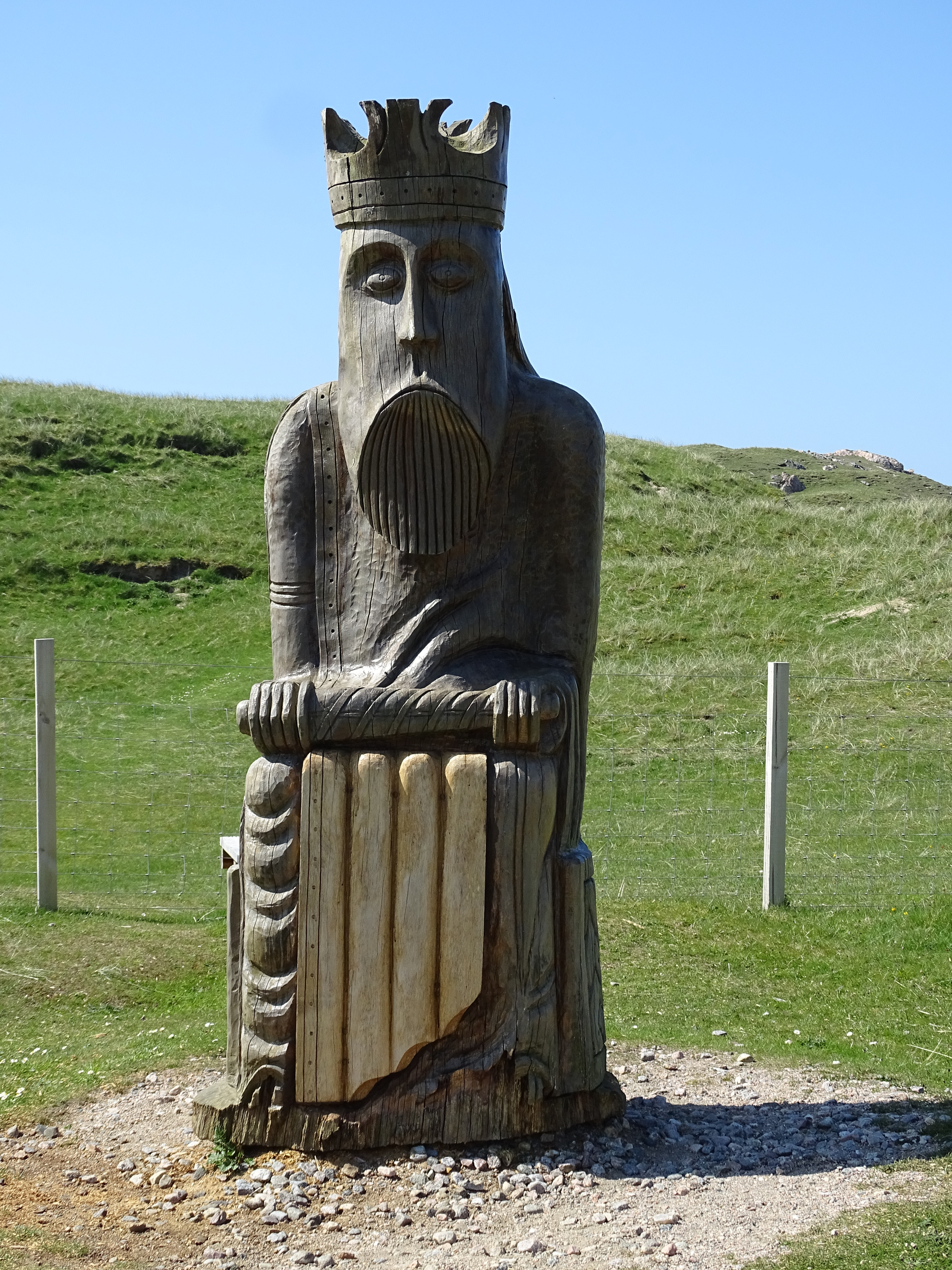 The Uig Chessman sculpture, commissioned in 2006, and carved in oak by Stephen Hayward.